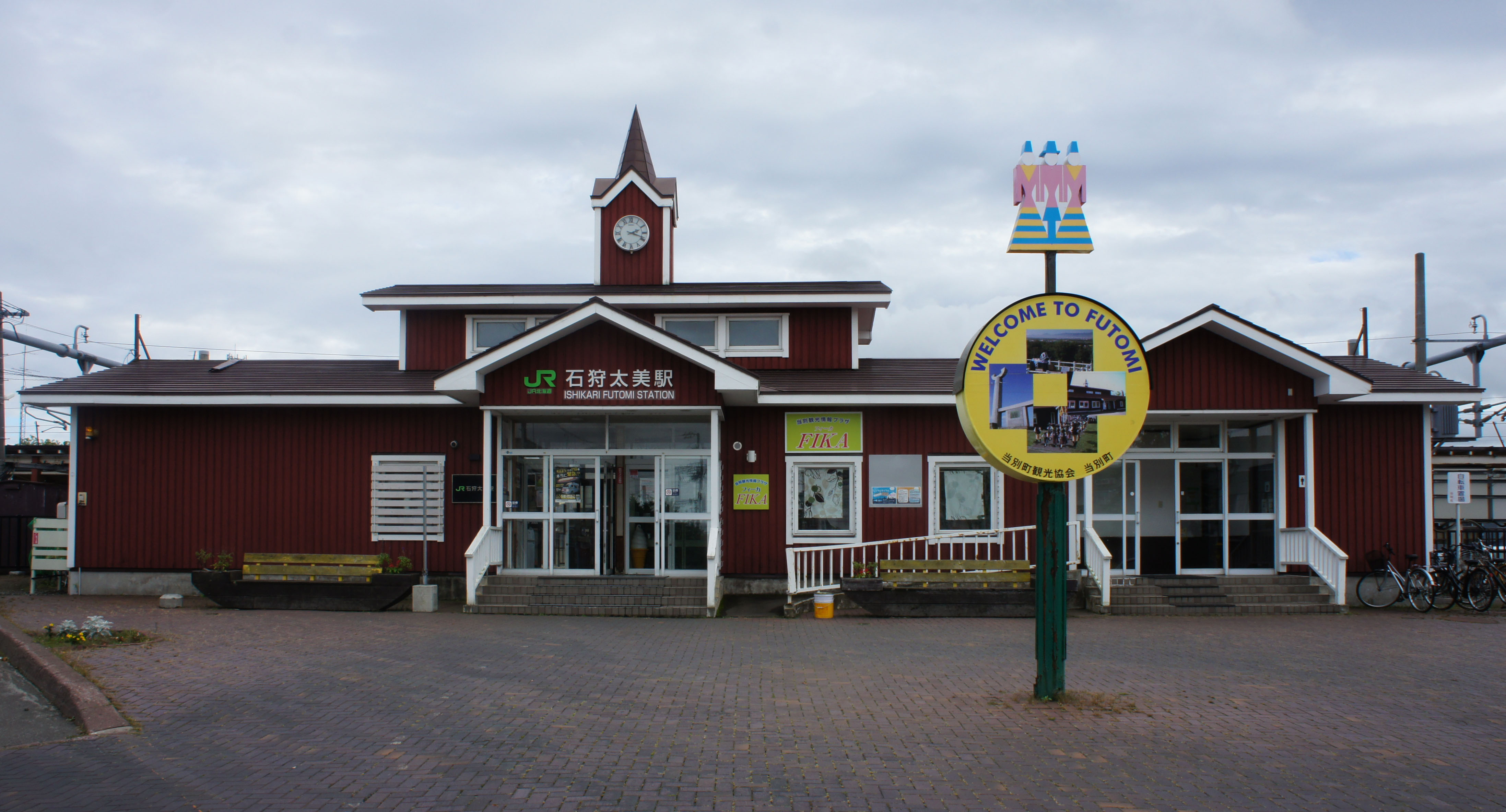 Station building of JR Sassho-Line Ishikari-Futomi Station